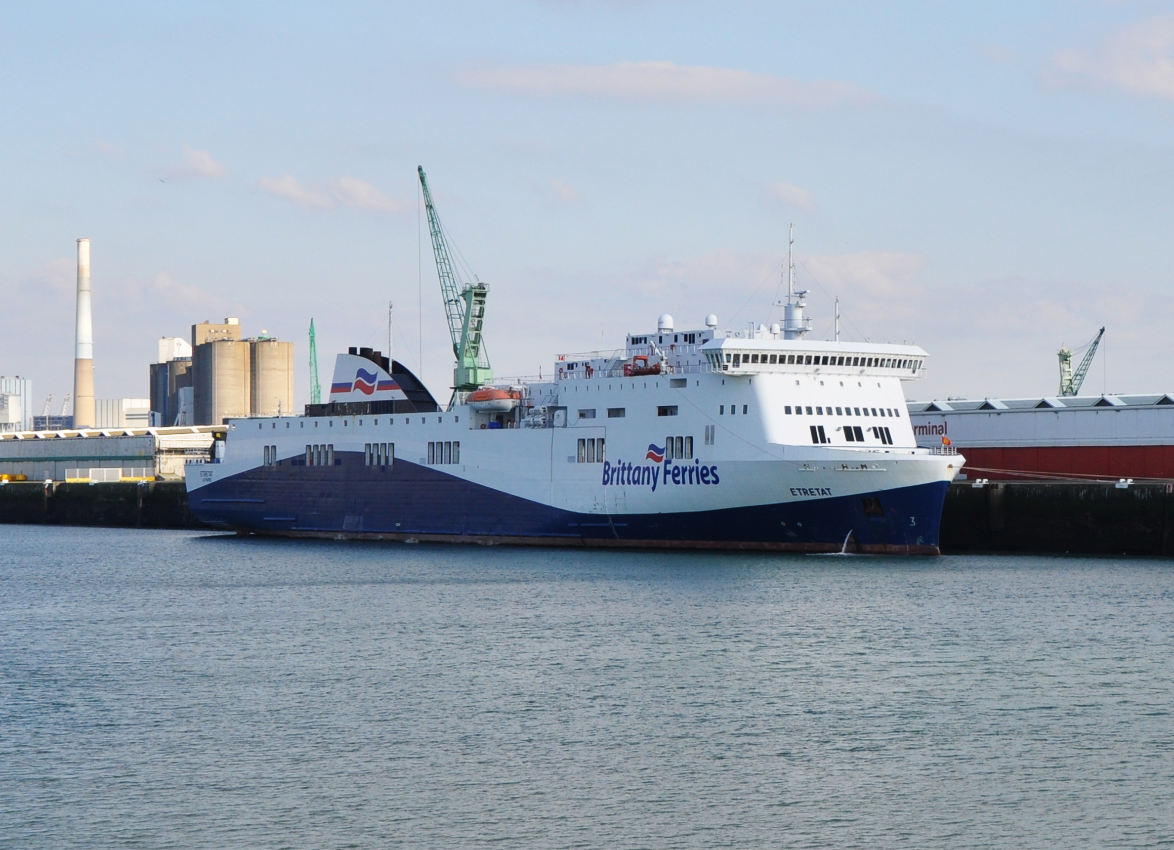 MV Étretat in port of Le Havre (France, Normandy)